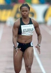 Chandra Sturrup during 2010 FBK Games in Hengelo